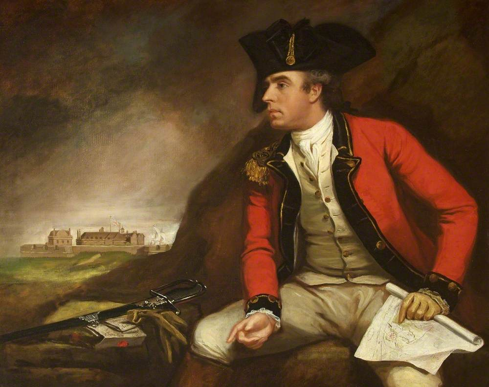 Portrait of "Captain Sir Thomas Hyde Page (1746-1821), FRS, with Townshend Depicted in the Background and Holding Plans for It in His Hand." Courtesy of the collection of the National Trust.